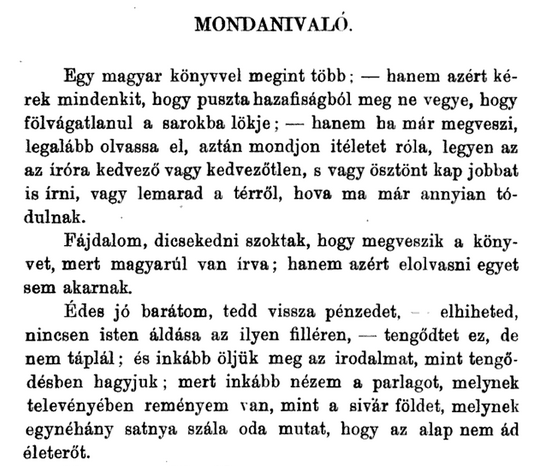 Vas Gereben's book - introduction